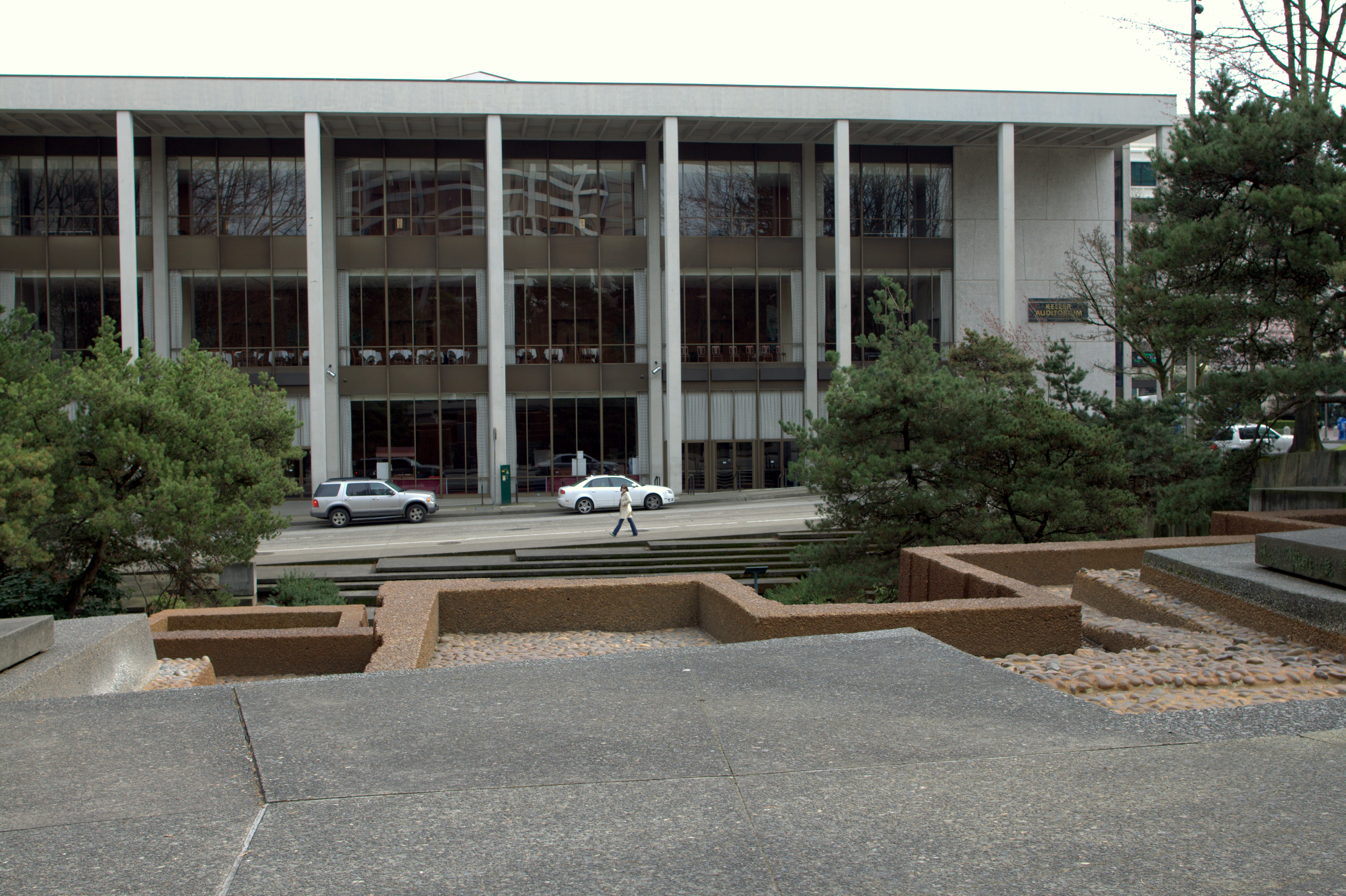 Keller Fountain Park, looking at Keller Auditorium in Portland, Oregon.